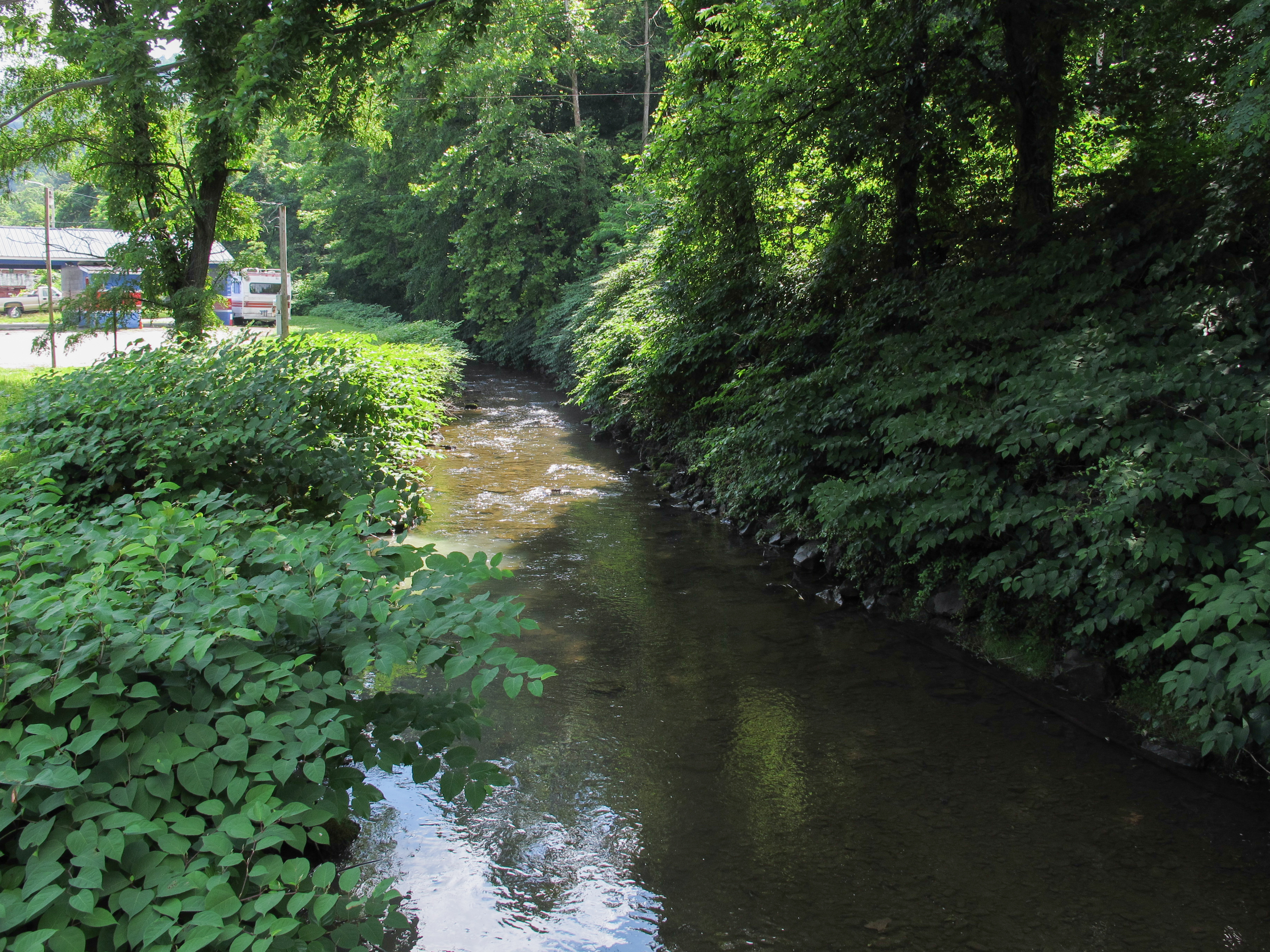 Smithers Creek in Smithers, West Virginia, as viewed upstream from Stockton Street, south of Cannelton Hollow Road.